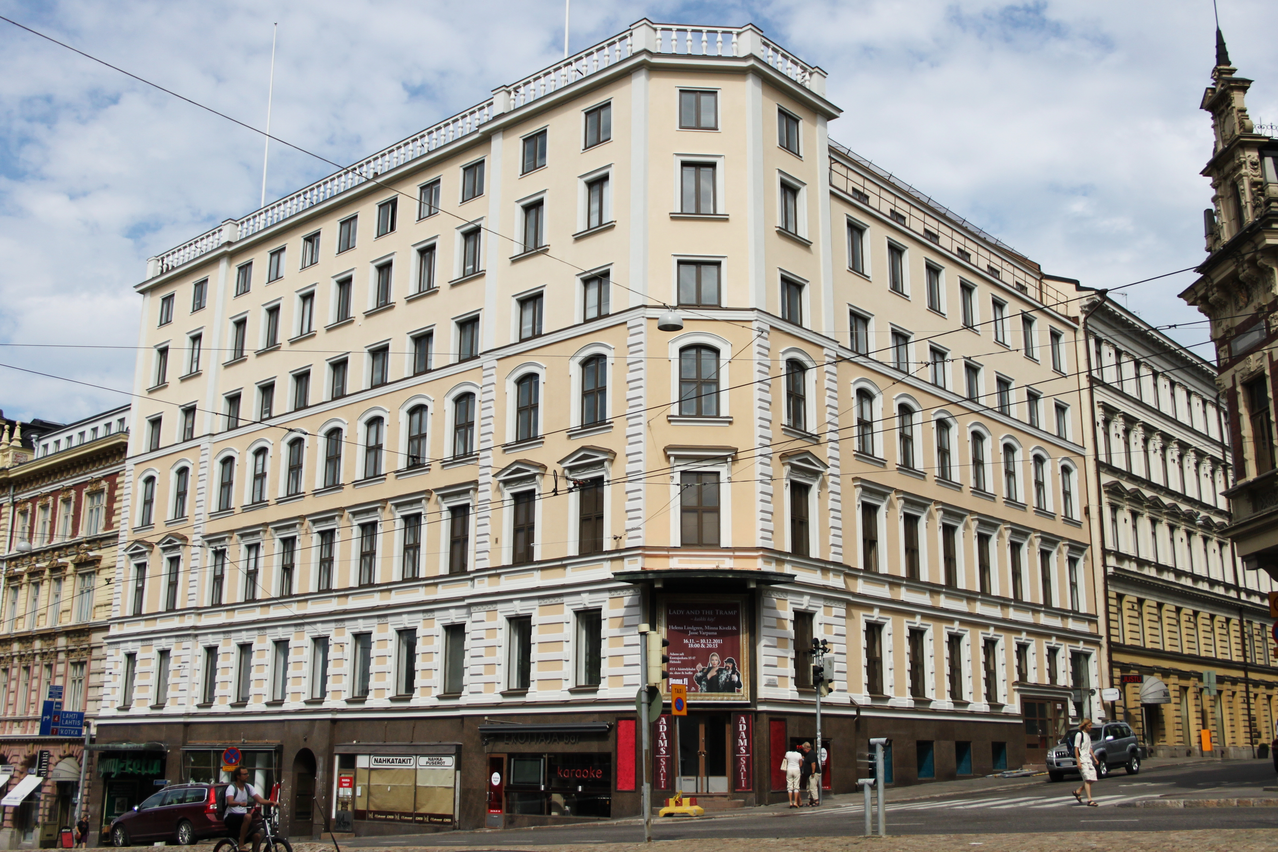 Erottajankatu 15–17 / Ludviginkatu 7. Architechts: H. E. Saurén, Helge Rancken. Built in 1886.